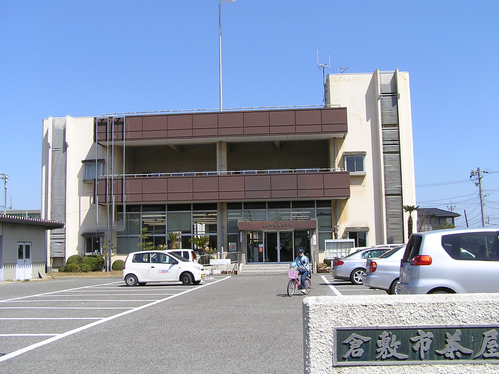 Kurashiki city office Chayamachi branch office